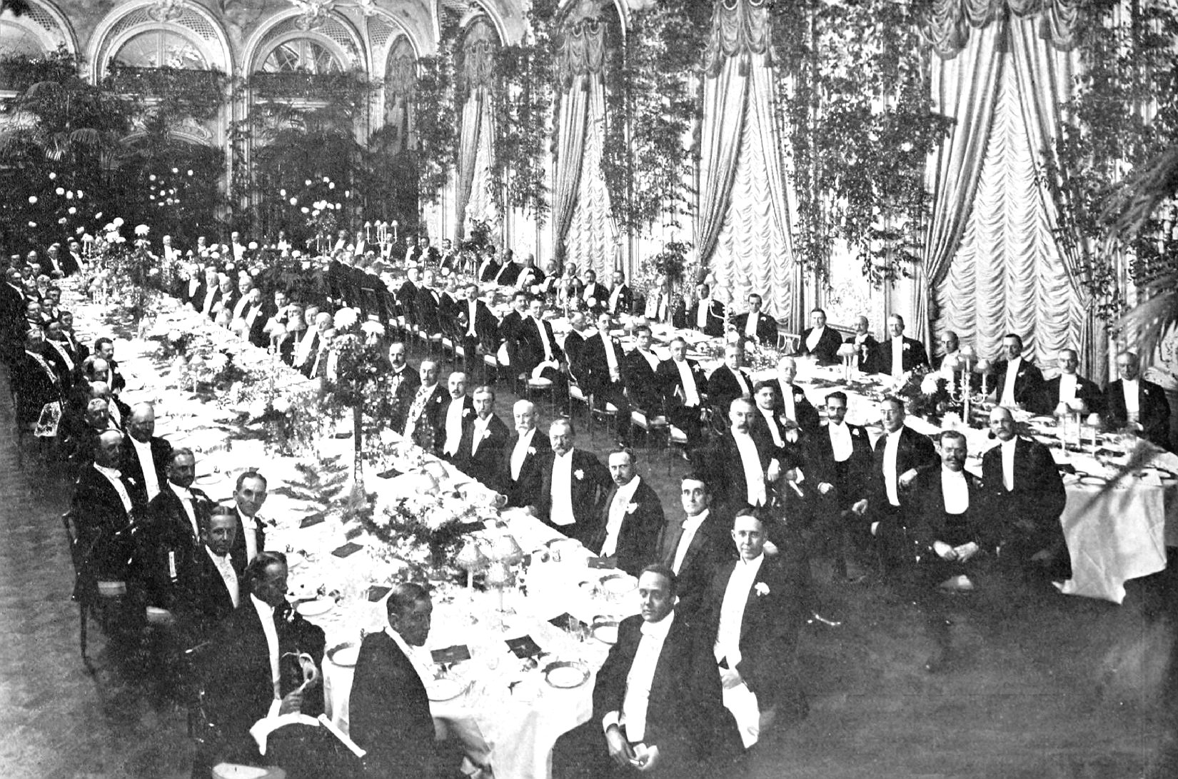 Photo of the banquet for Elbert Henry Gary, founder of US Steel, given at the Waldorf-Astoria in 1909.